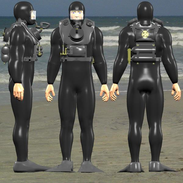 Three views of a frogman with CDBA rebreather.